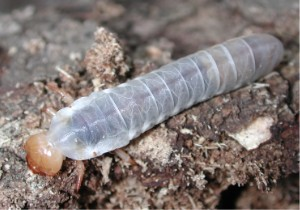 Popilius disjunctus larva Image copyleft: Image taken by me, released under GFDL Pollinator 13:23, Sep 23, 2004 (UTC)